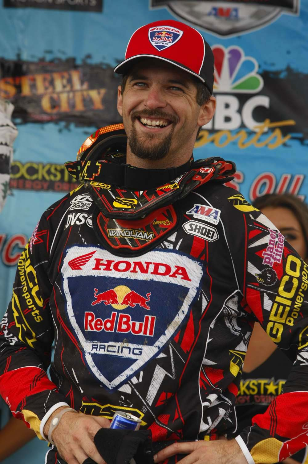 Kevin Windham post race